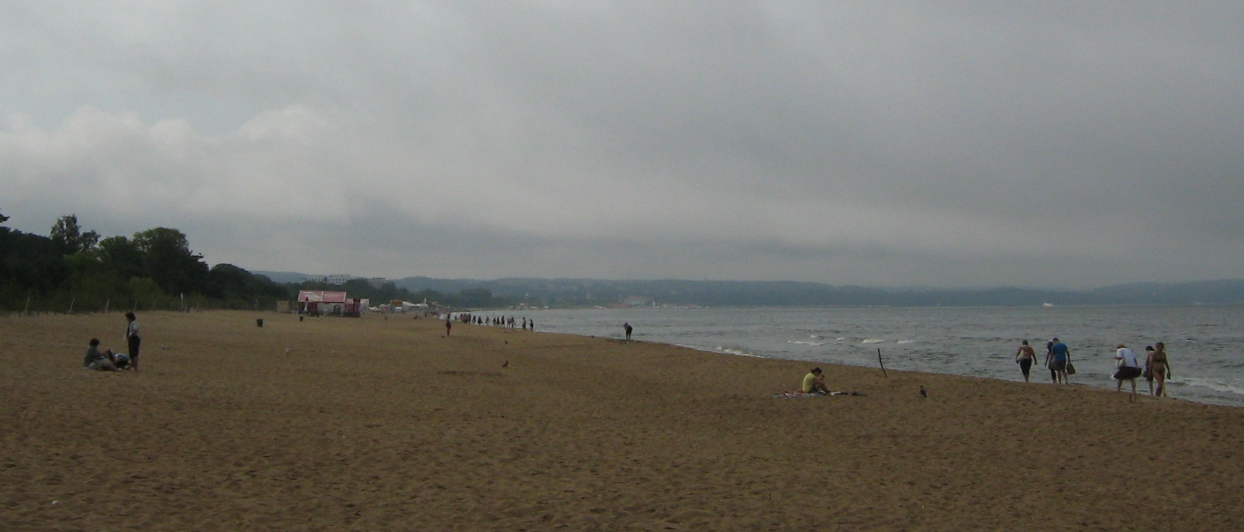 Jelitkowo beach in Gdansk.